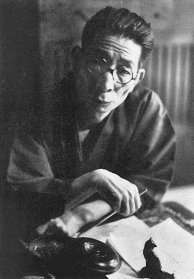 Saisei Muro